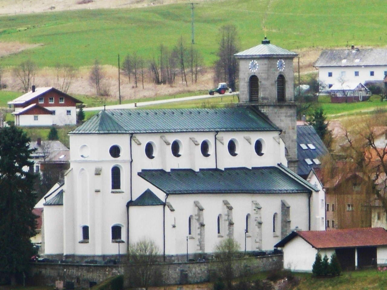 Gotteszell, St Anna Parish Church (until 1803 church of the Cistercian abbey) from north-east.